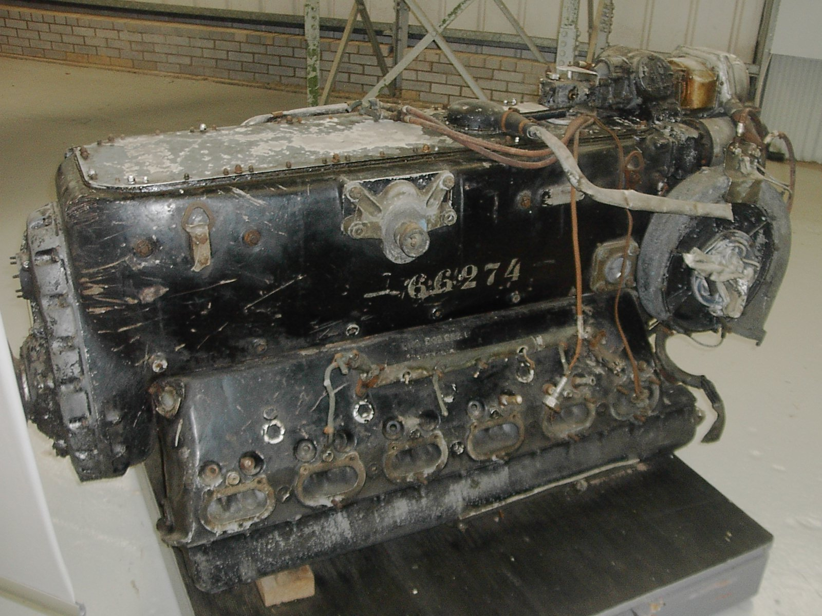 One of the engines of Rudolf Hess's Messerschmitt BF110 plane. The engine is on display at the National Museum of Flight in East Lothian, Scotland. Picture is taken by me.